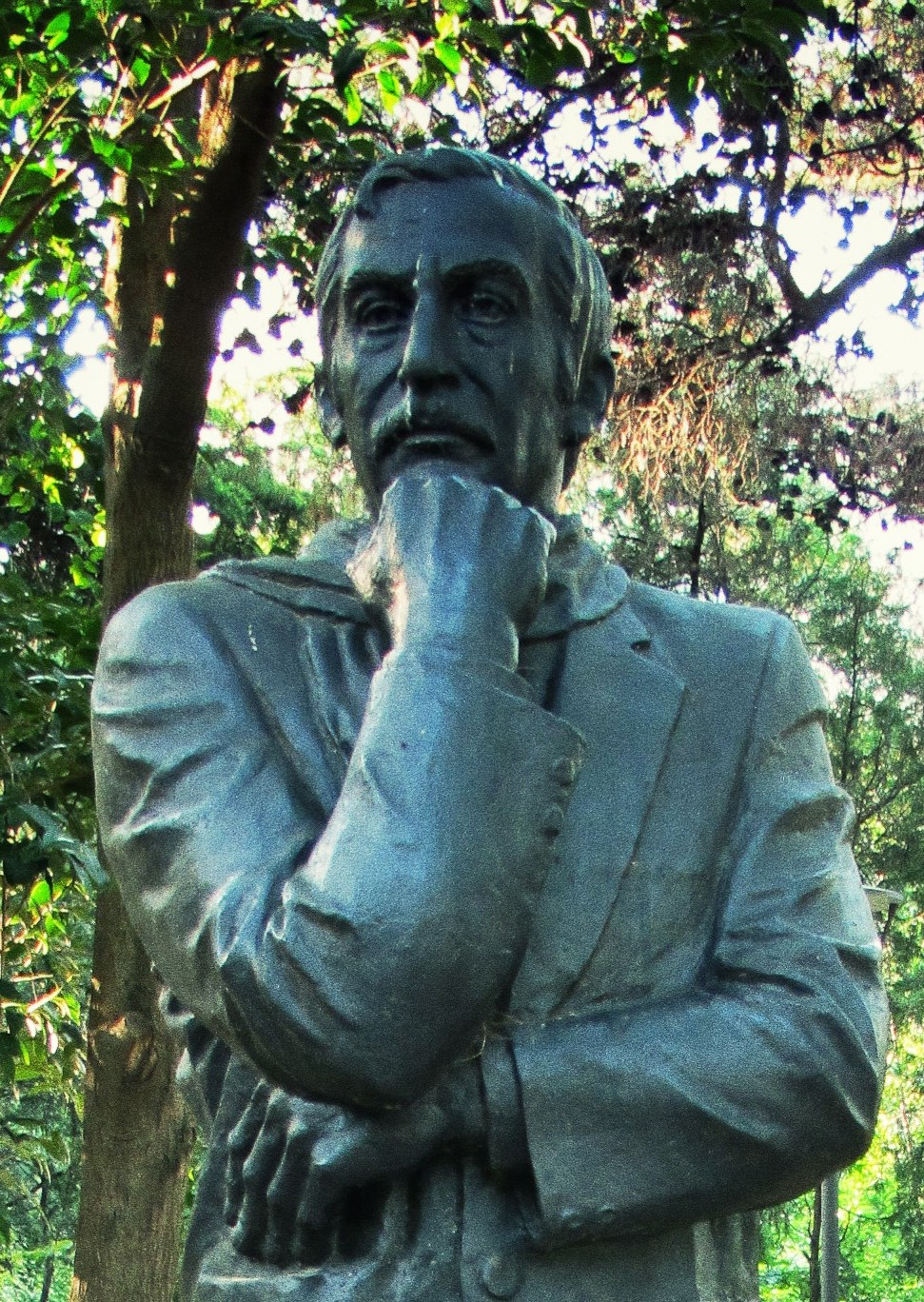 en|1=Statue of İlhan Selçuk in Özgürlük Parkı, Kadıköy